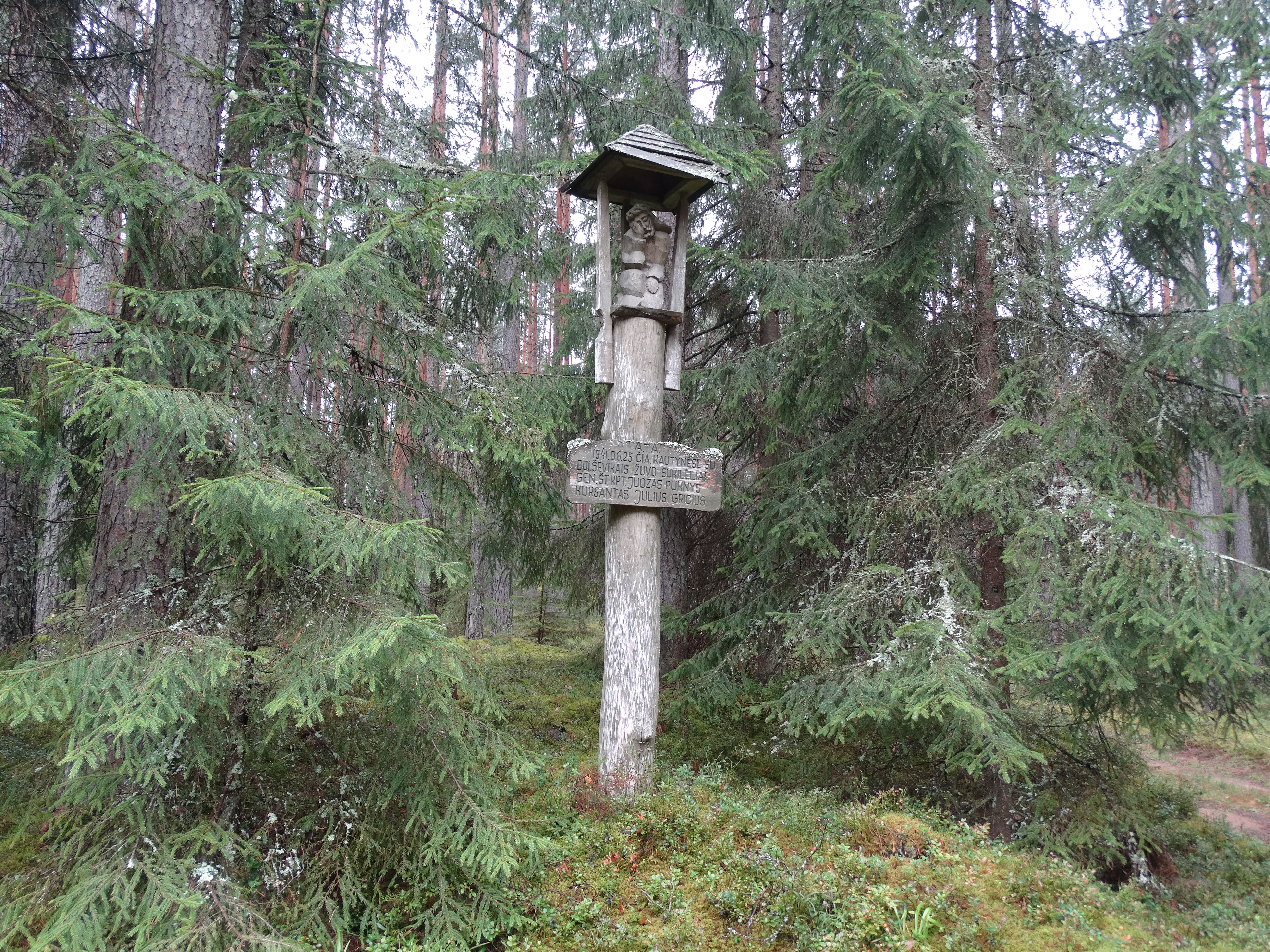 Wayside shrine by Pažemys, Švenčionys district, Lithuania